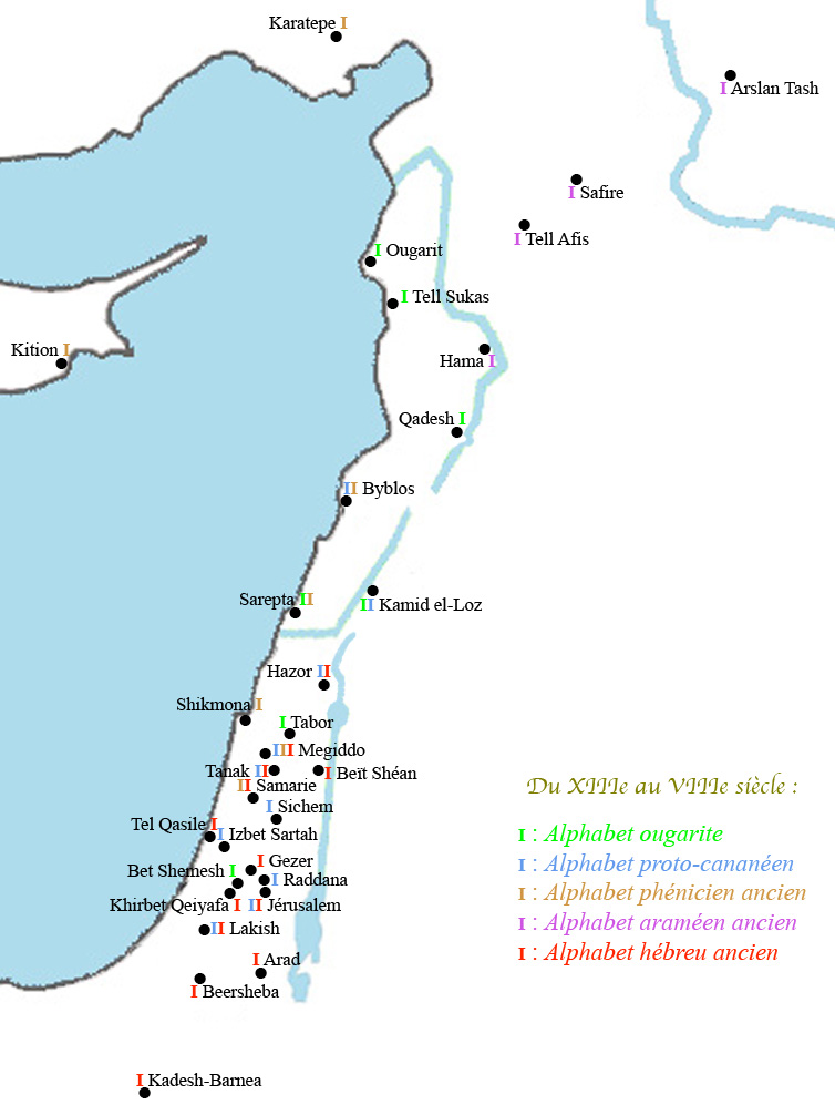 The map shows the spread of the alphabet in Syria-Palestine from XIIIth to VIIIth centuries BC (Ugaritic, proto-Canaanite, old Phoenician, old Aramaic, old Hebrew alphabets). Drawn mainly using Mario Liverani, Israel's History and the History of Israel, p.44.